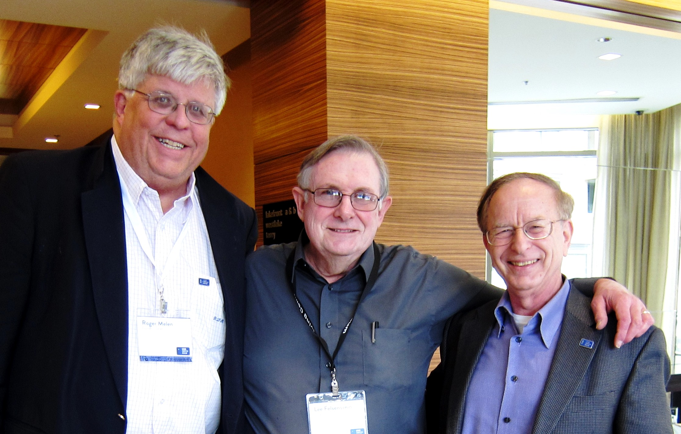 Roger Melen, Lee Felsenstein, and Harry Garland at event honoring Computer Pioneers held at the Living Computer Museum in Seattle, Washington, April 2013.